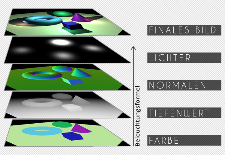 Visualization of the several stages of the deferred shading technique.